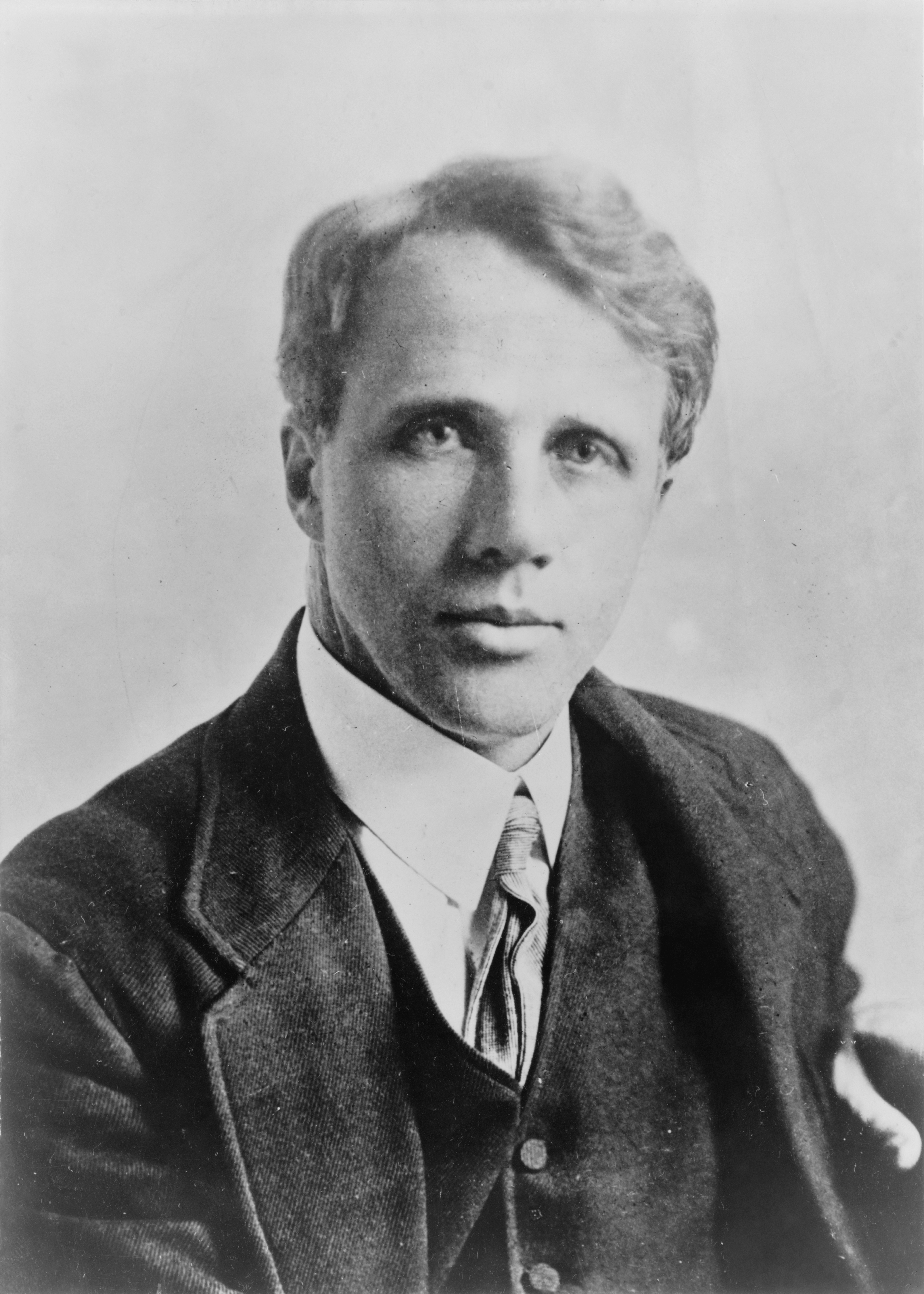 "Robert Frost, head-and-shoulders portrait, facing front."